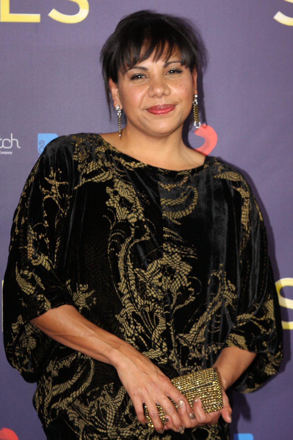 The Sapphires movie premiere at State Theatre, Sydney, Australia